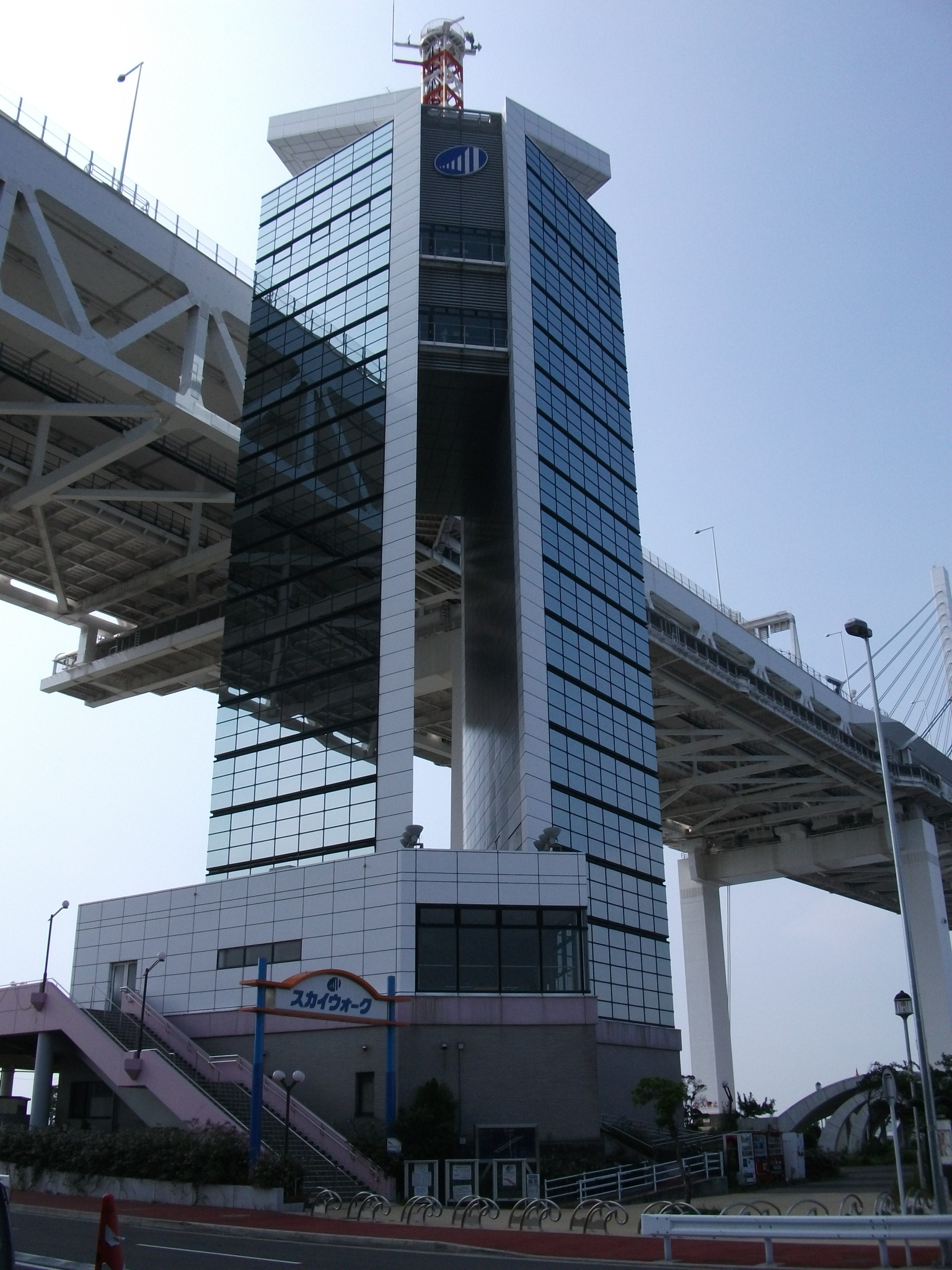 Yokohama SKYWALK (Yokohama, Japan)